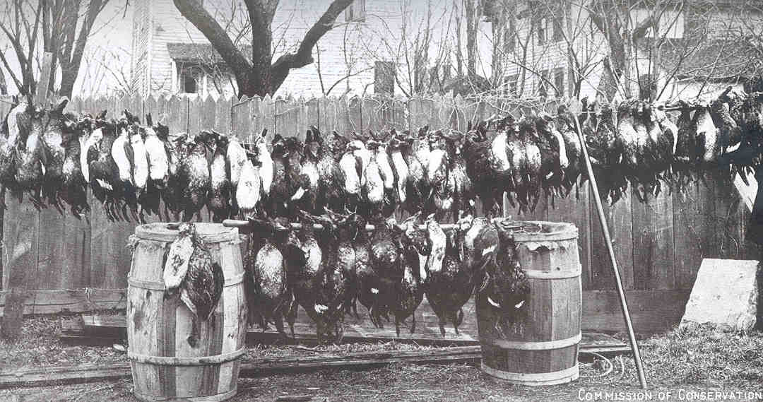 Ducks Illegally Netted in Lake Ontario Subject: Poaching, Ducks Geographic Subject: United States--New York--Ontario, Lake, Canada--Ontario--Ontario, Lake Tag: Water Birds